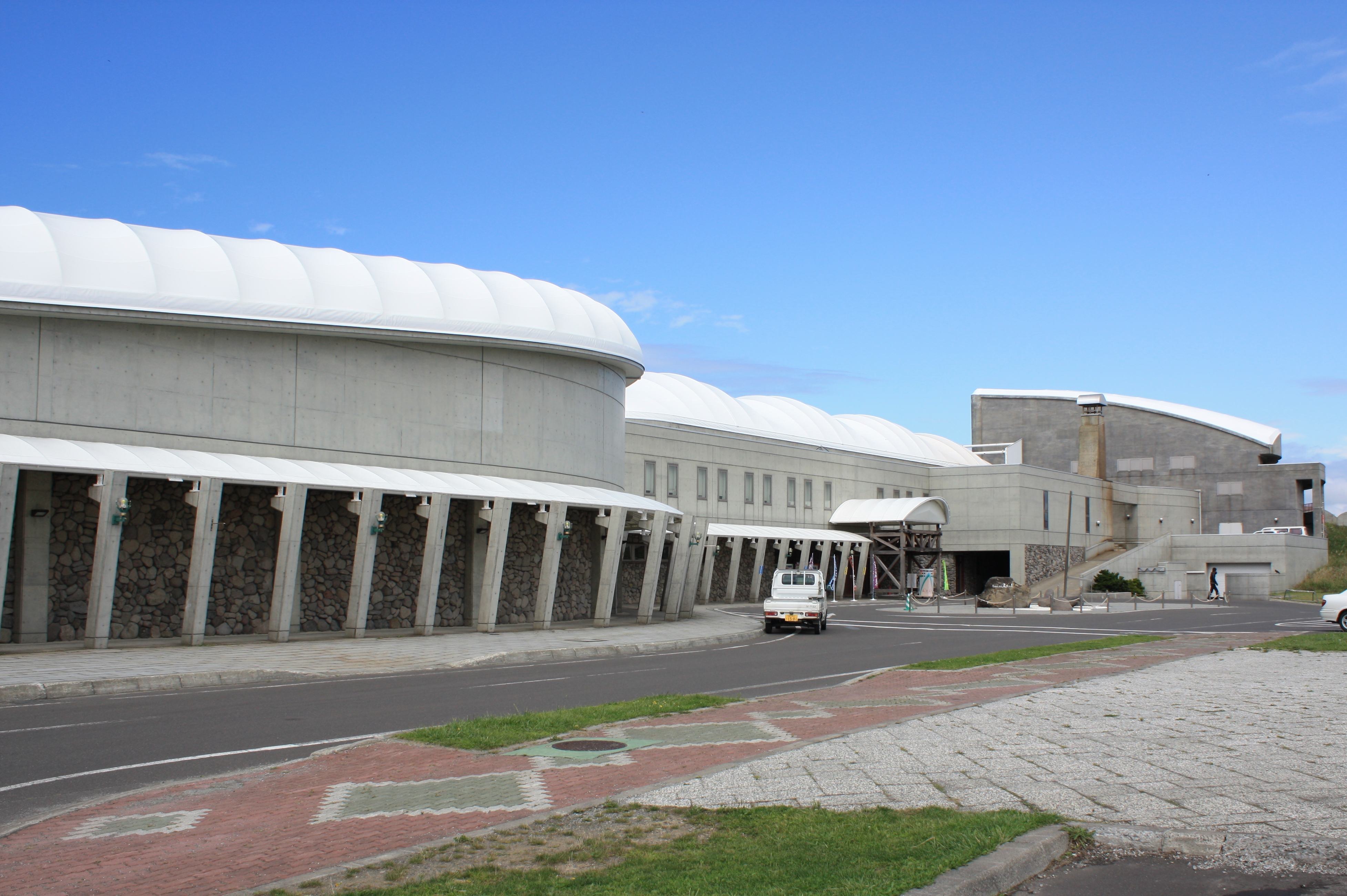 Roadside Station Fu Watto Tomamae in Tomamae, Hokkaidō, Japan. It is on the Japan National Route 232.